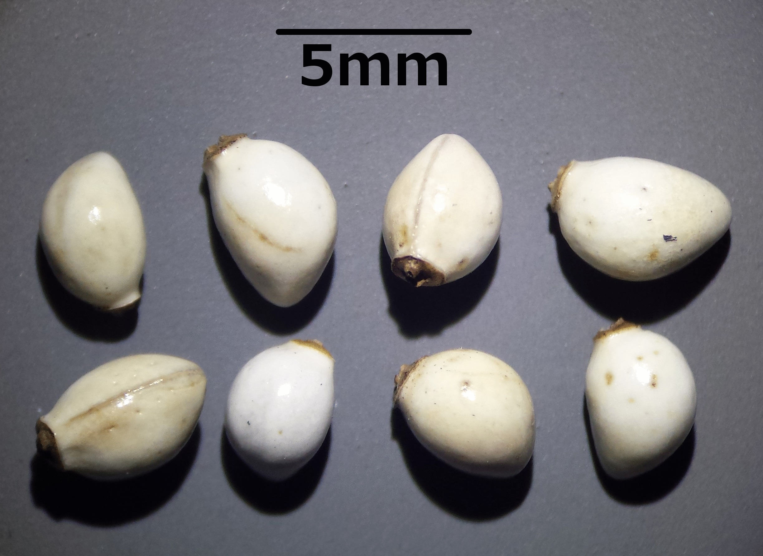 Fruits Taxon: Buglossoides purpurocaerulea (sensu Fischer et al. EfÖLS 2008) Location: near Niederhollabrunn, district Korneuburg, Lower Austria - ca. 330 m a.s.l. Habitat: border of a wood